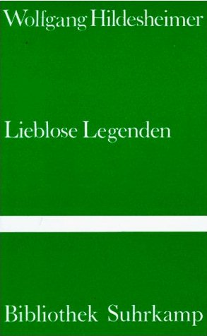 Book cover of Wolfgang Hildesheimer "Lieblose Legenden" 1952